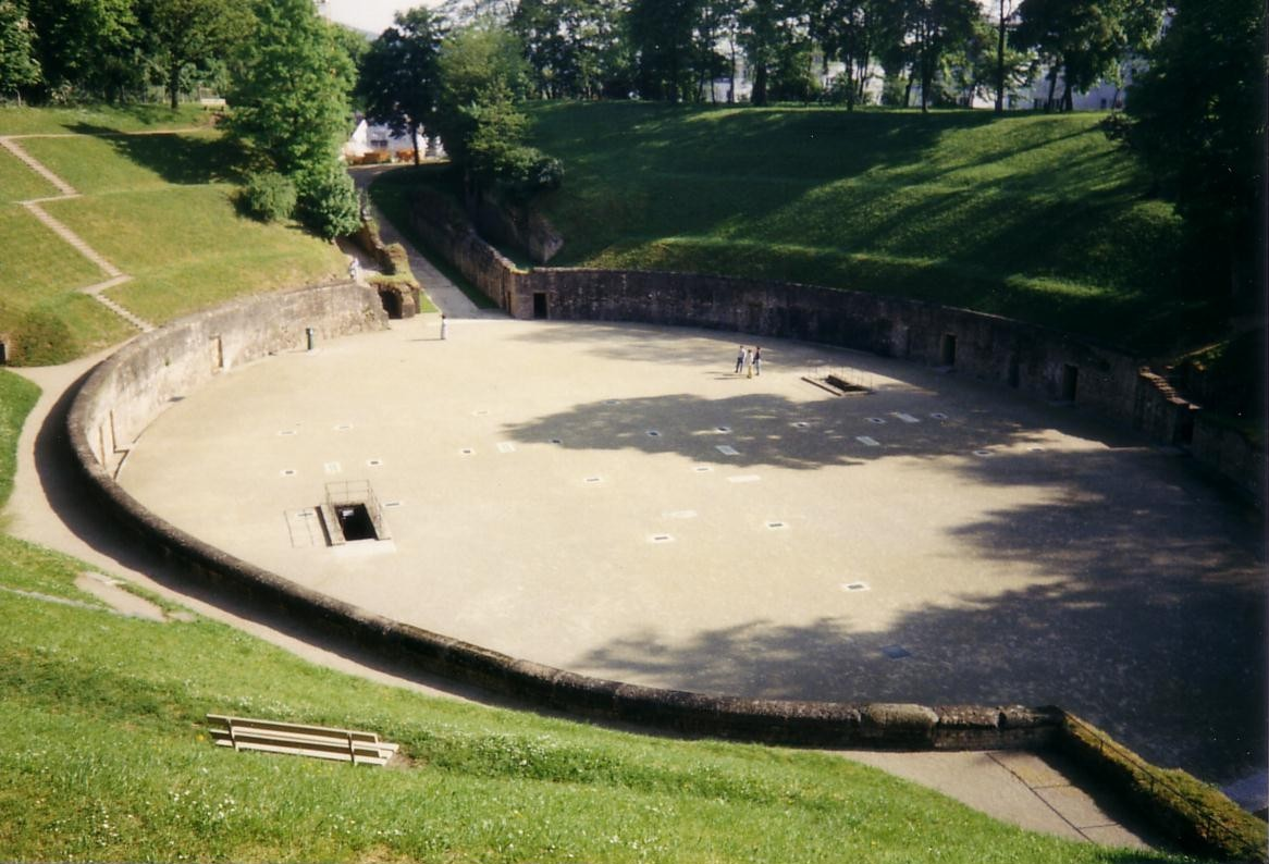 Photograph by Mllefifi of the amphitheater in Trier, early May 1999. Analog to digital scan by Mllefifi.